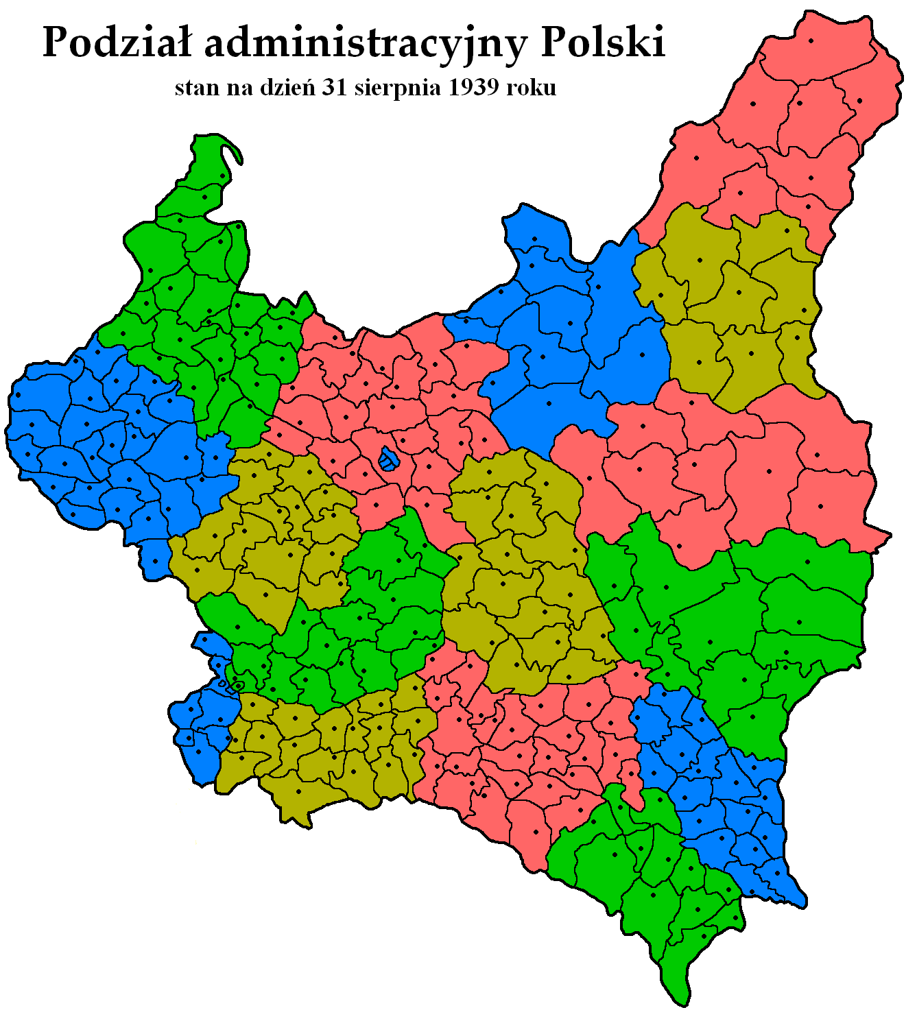 Political divisions of Poland on 31 August 1939